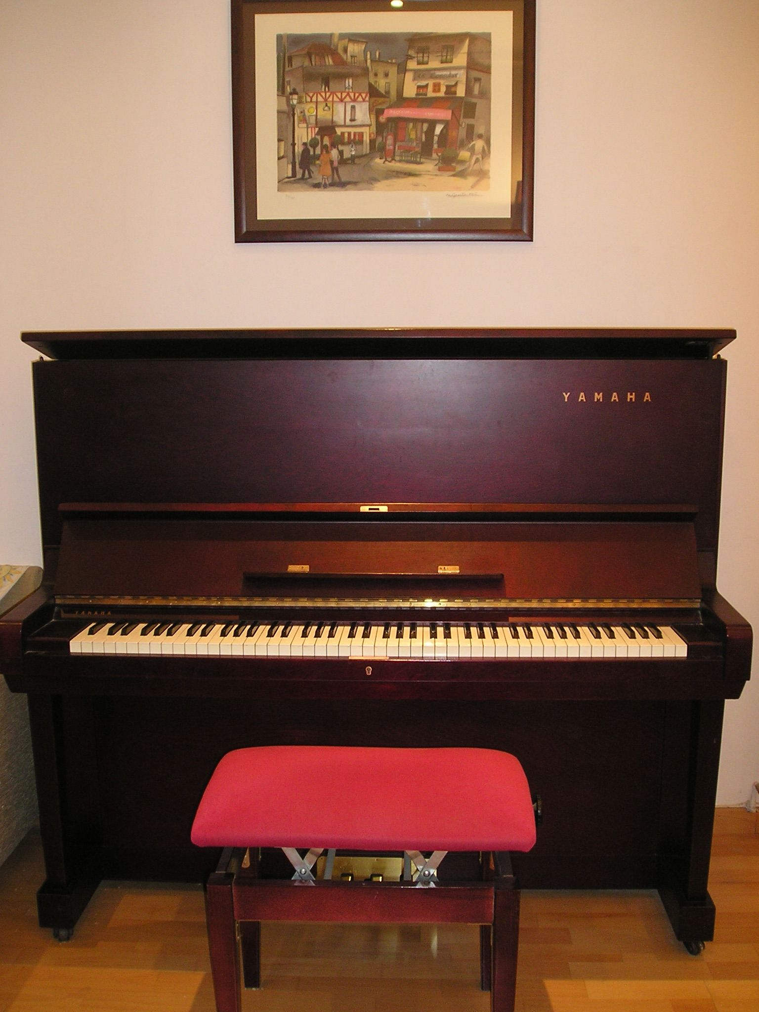 This is a picture of my piano.